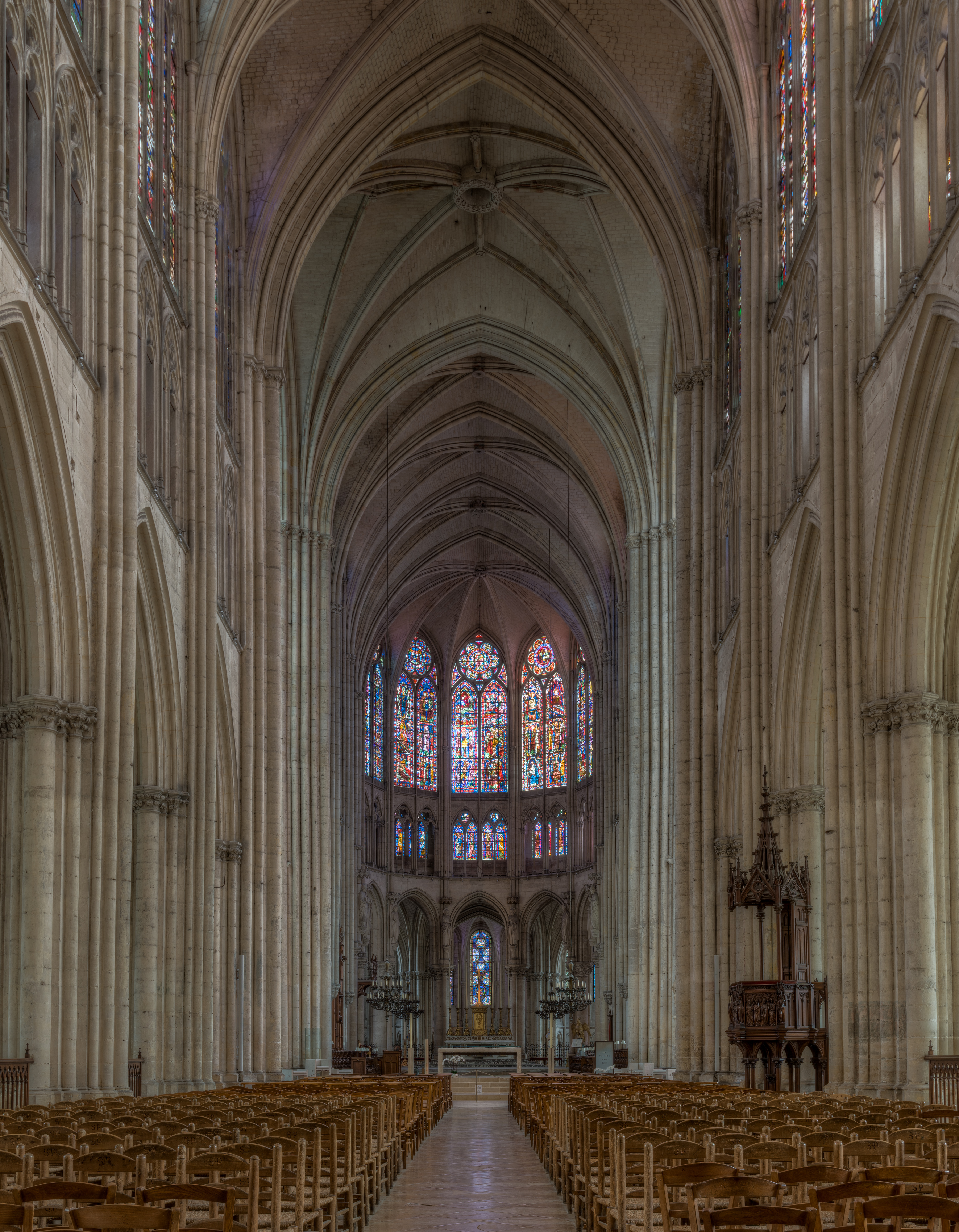 The nave of Troyes Cathedral This is a retouched picture, which means that it has been digitally altered from its original version. Modifications: Blended 7-image HDR.